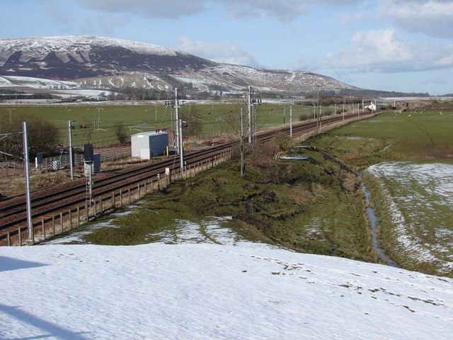 Site of Lamington rail station Looking along the main west-coast rail-line as it heads north past the site of the former Lamington station on a wintry day. The station itself closed and disappeared in the late 1960s.